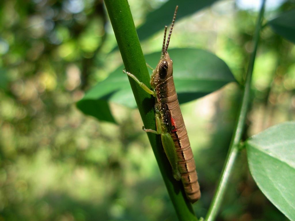 probably Orthacris spec.